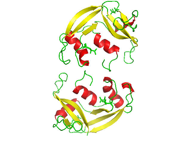 Eosinophil Cationic Protein